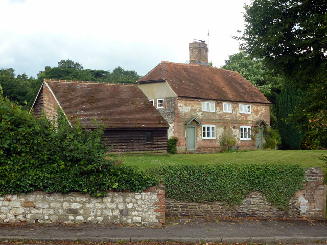 Seale Lodge Cottages